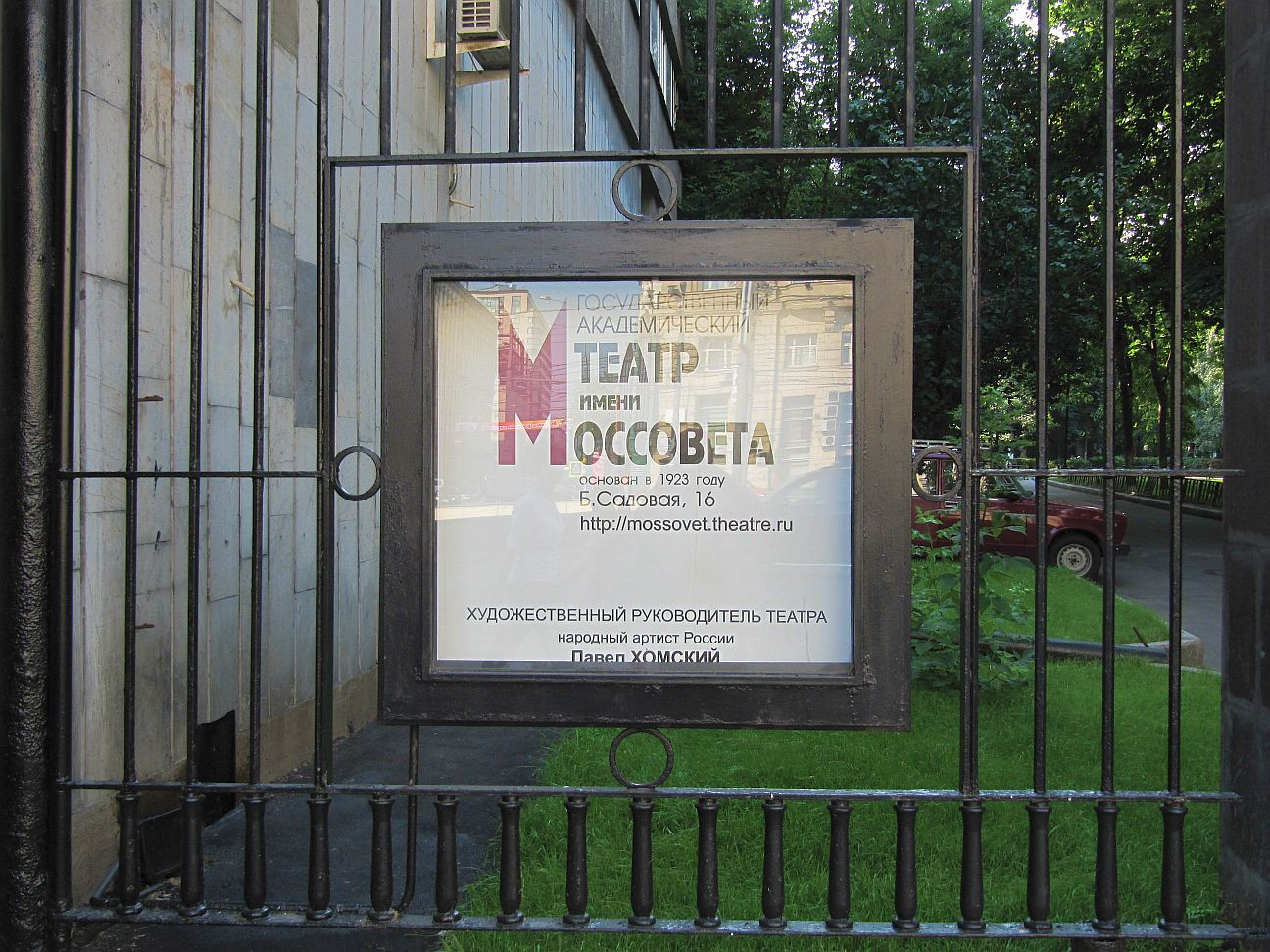 Mossovet Theatre poster on the fence of the Aquarium Garden in Moscow.